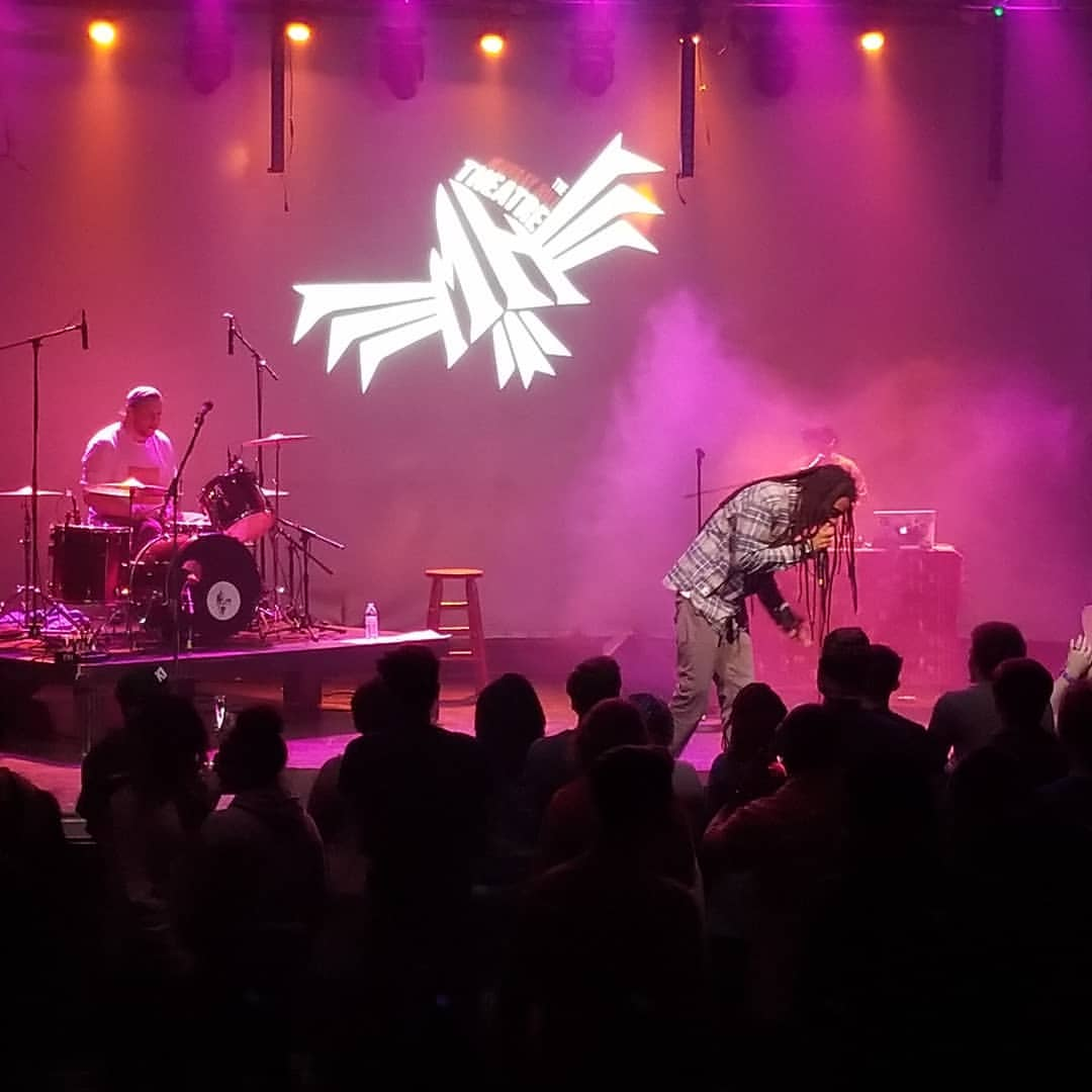 Propaganda performing at the Murray Hill Theatre. Upload of this photo was given with permission by the author Marvelyn McFarlane. All credit must be attributed to Marvelyn McFarlane